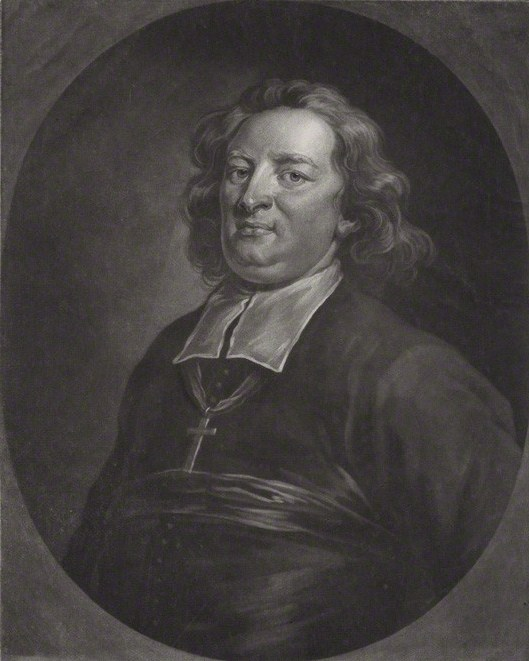 Portrait of Thomas John Francis Strickland, known as Abbé Strickland (1679?–1740), English Roman Catholic bishop of Namur and doctor of the Sorbonne.